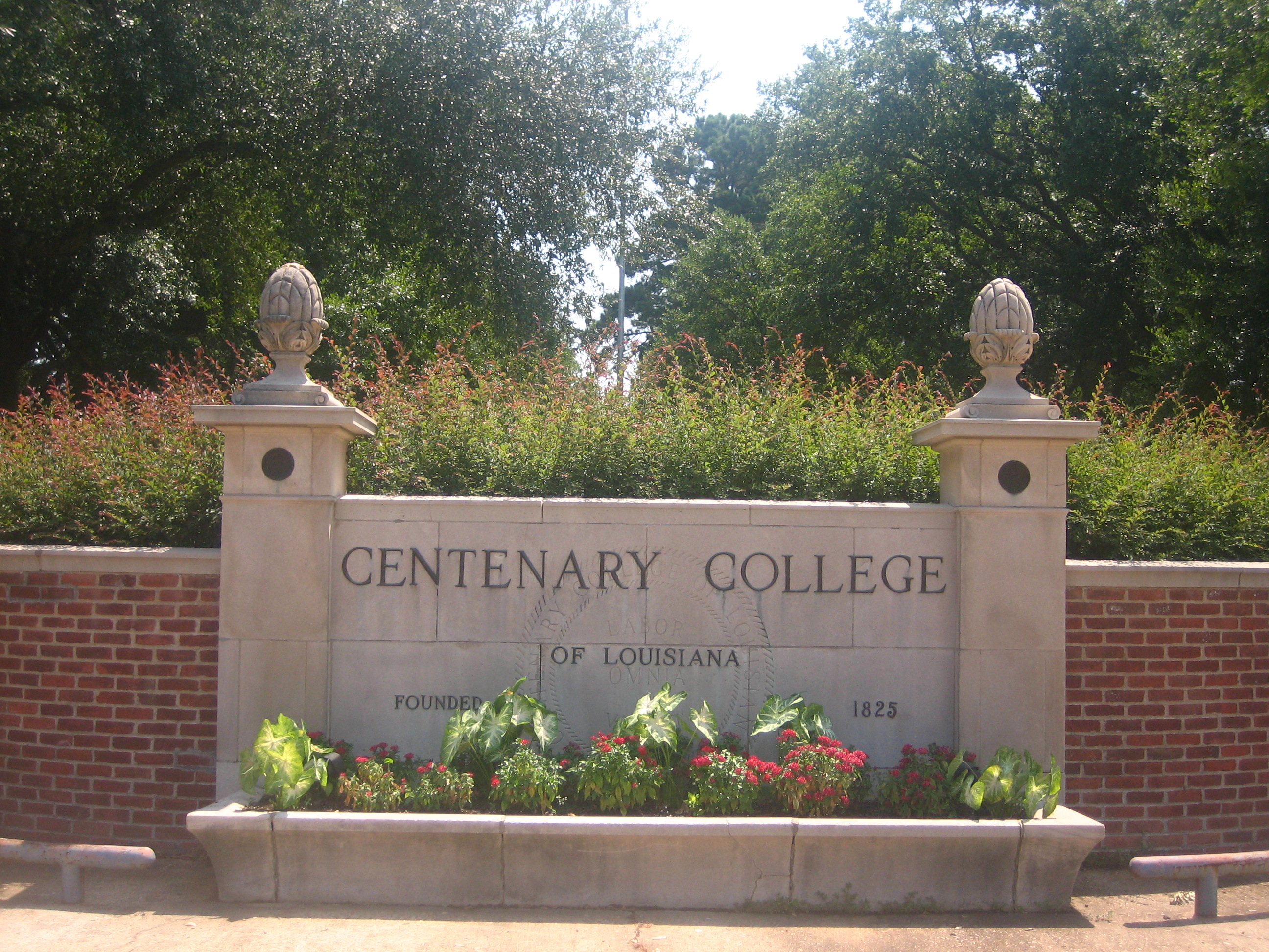 I took photo on Aug. 4, 2008.Billy Hathorn (talk) 02:25, 23 August 2008 (UTC)